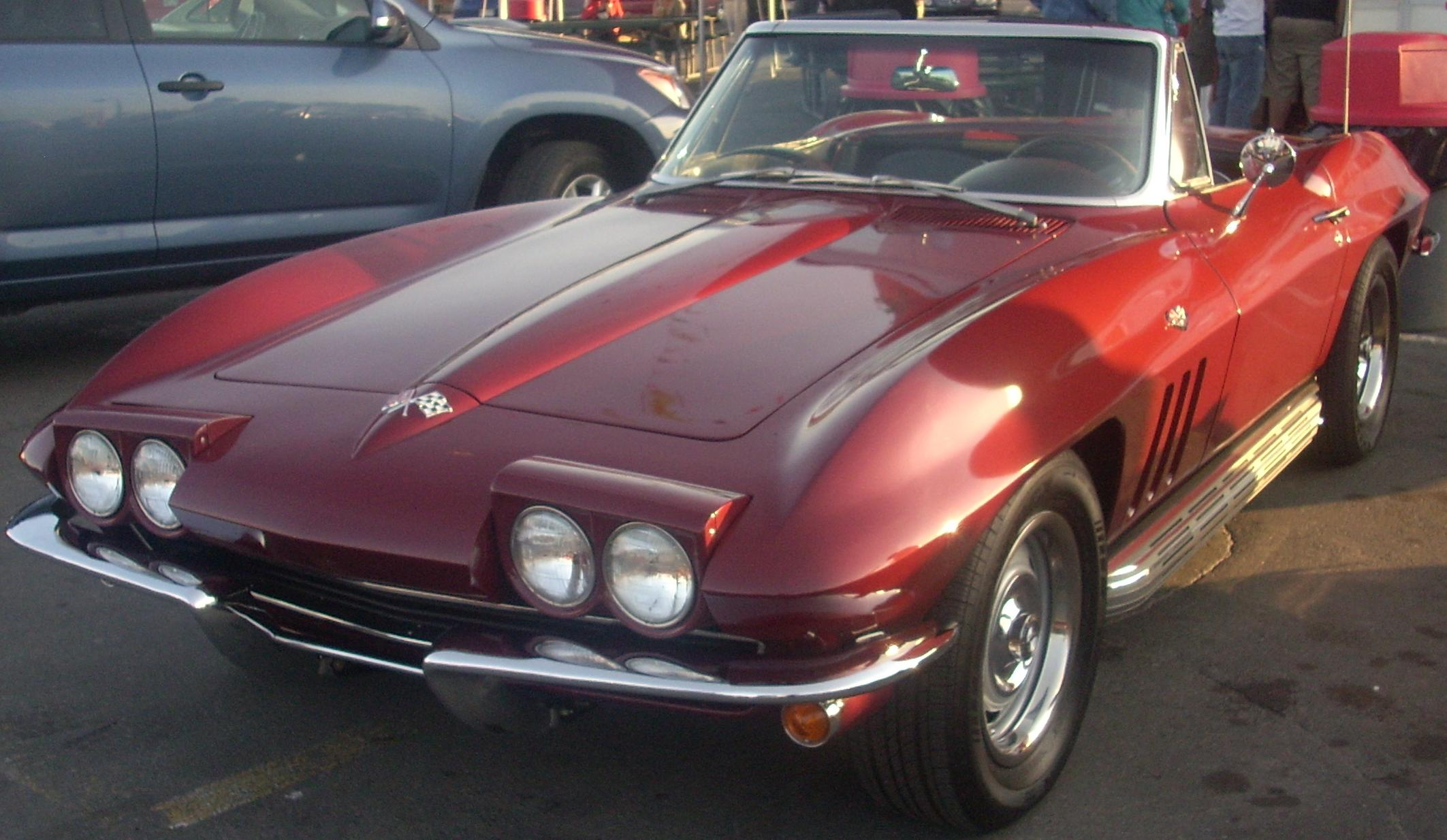 Chevrolet Corvette photographed in Montreal, Quebec, Canada at Gibeau Orange Julep.